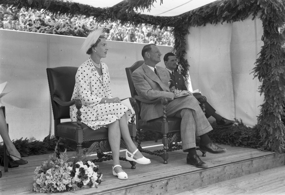 King Frederik IX (1899-1972) and Queen Ingrid (1910-2000) KB id: turck_62308 Royal Danish Library